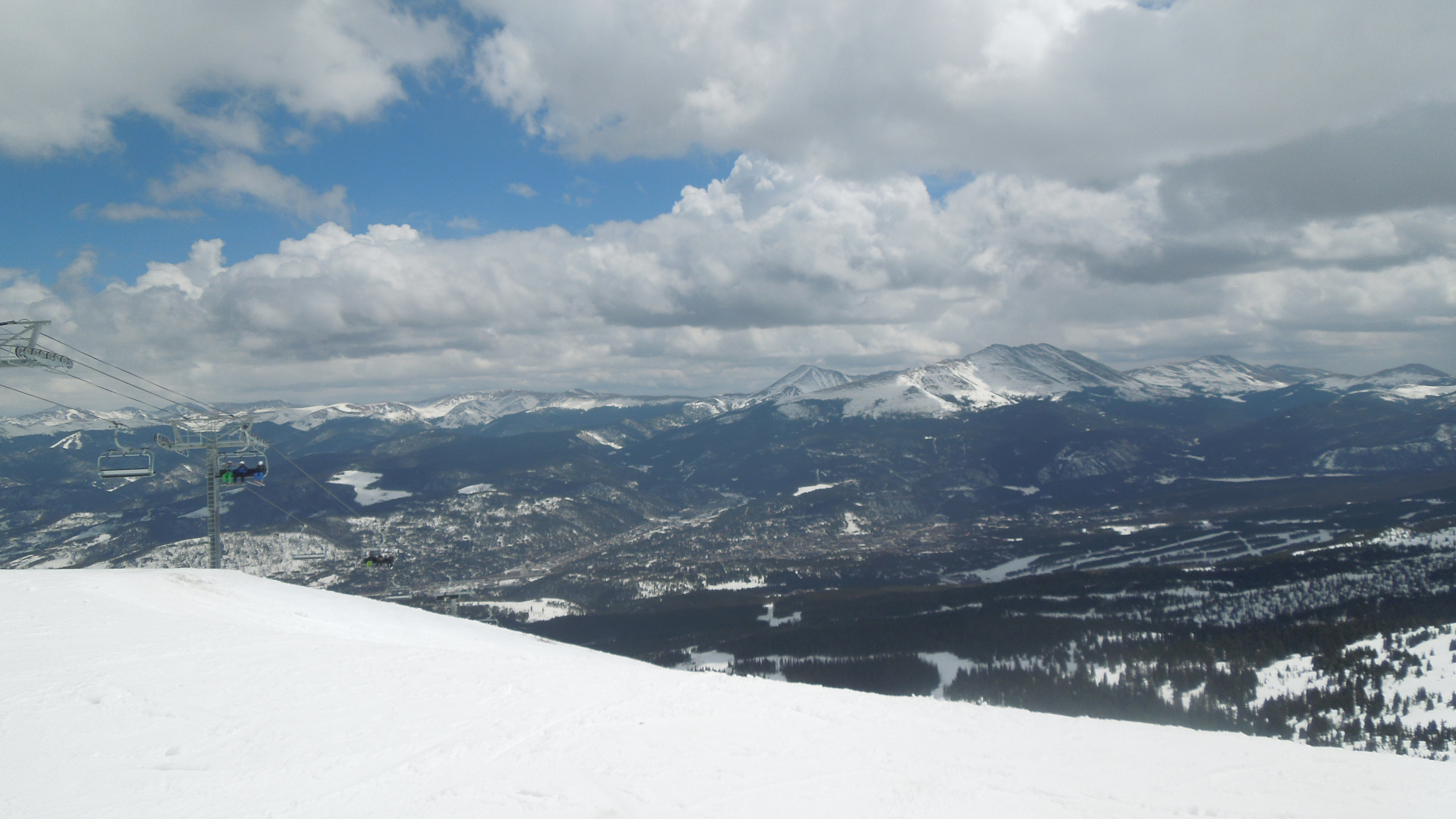 View of the town of Breckenridge. DReifGalaxyM31 (talk) 14:44, 29 June 2014 (UTC) Taken 04/19/14.